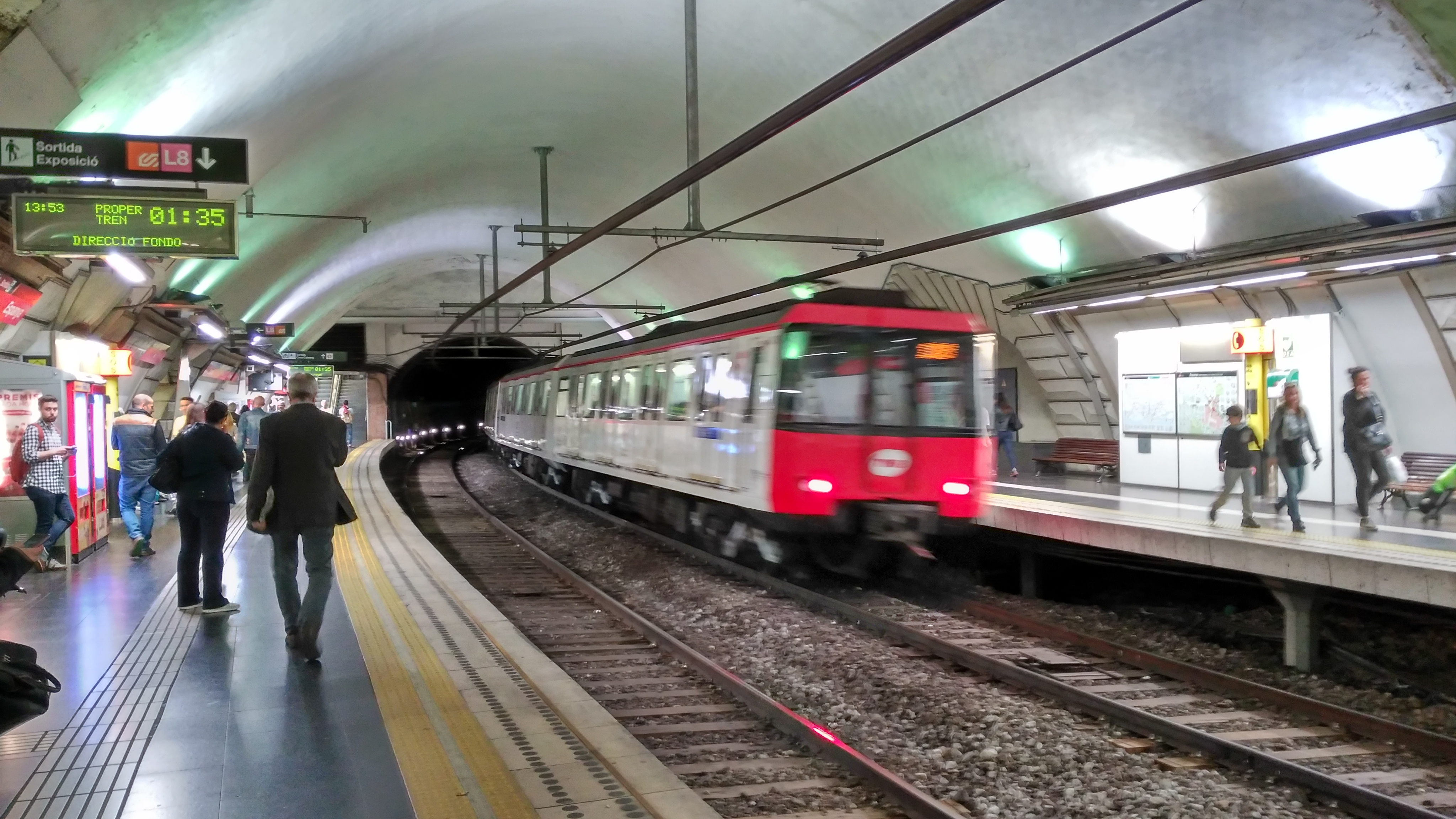 A 4000 series train departing from Espanya L1 station